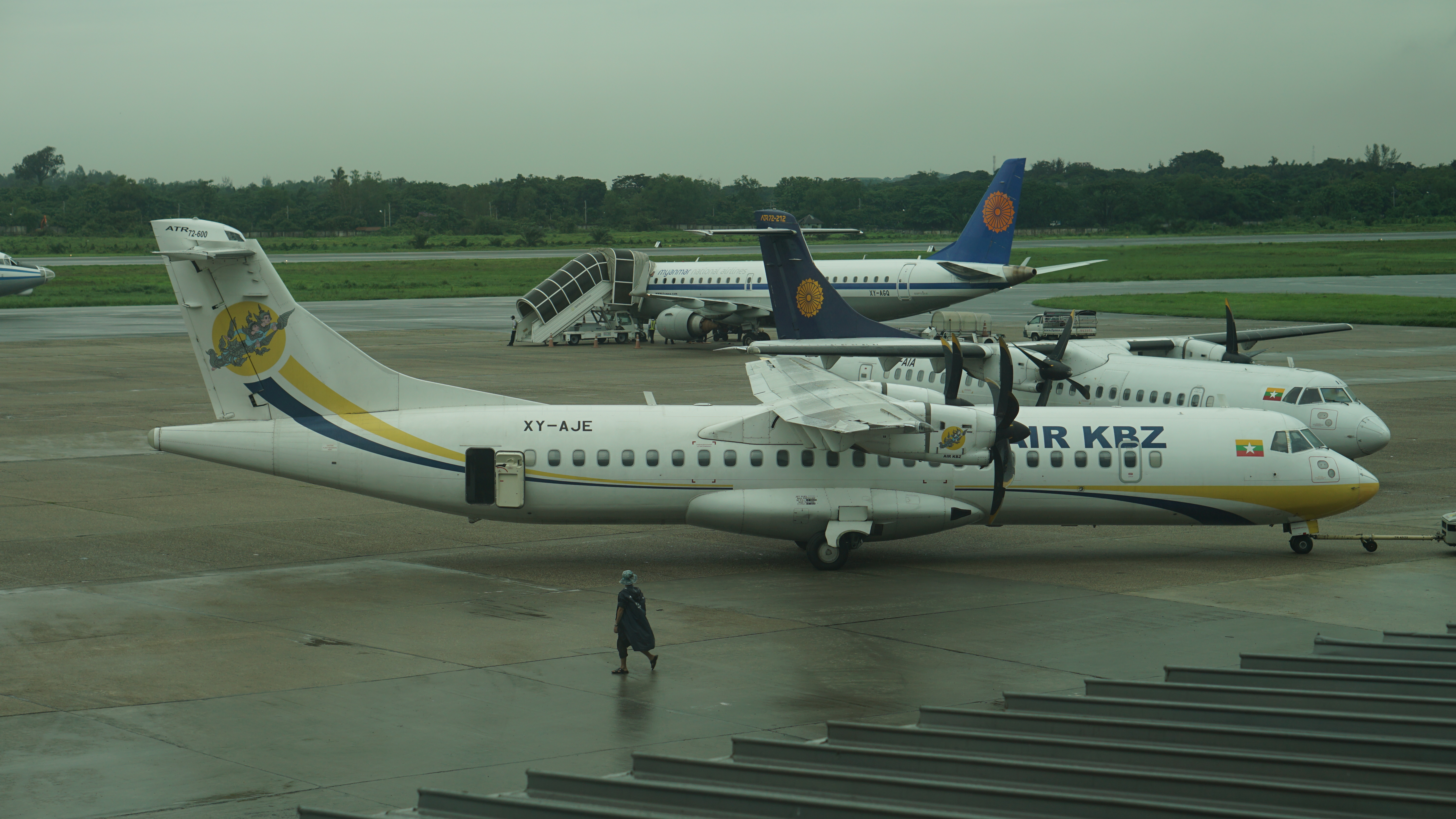 A pair of ATR-72 of Air KBZ in Yangon International airport in 2016